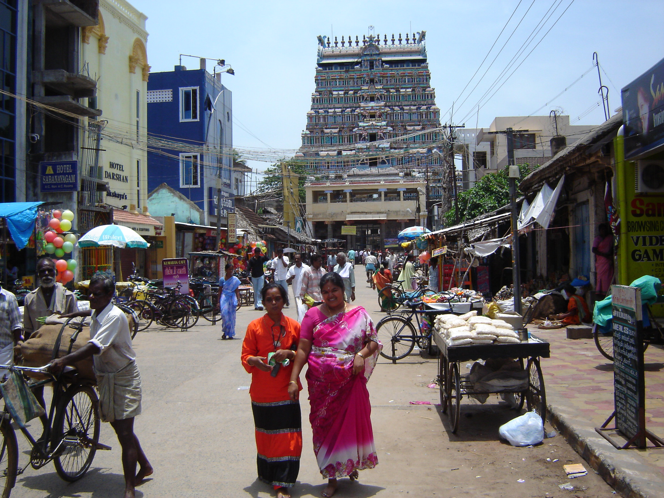 Street view in Chidambaram, Tamil Nadu, India. East Gopuram of the Nataraja temple in the background.